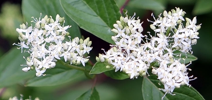 Cornus sericea in Minnesota